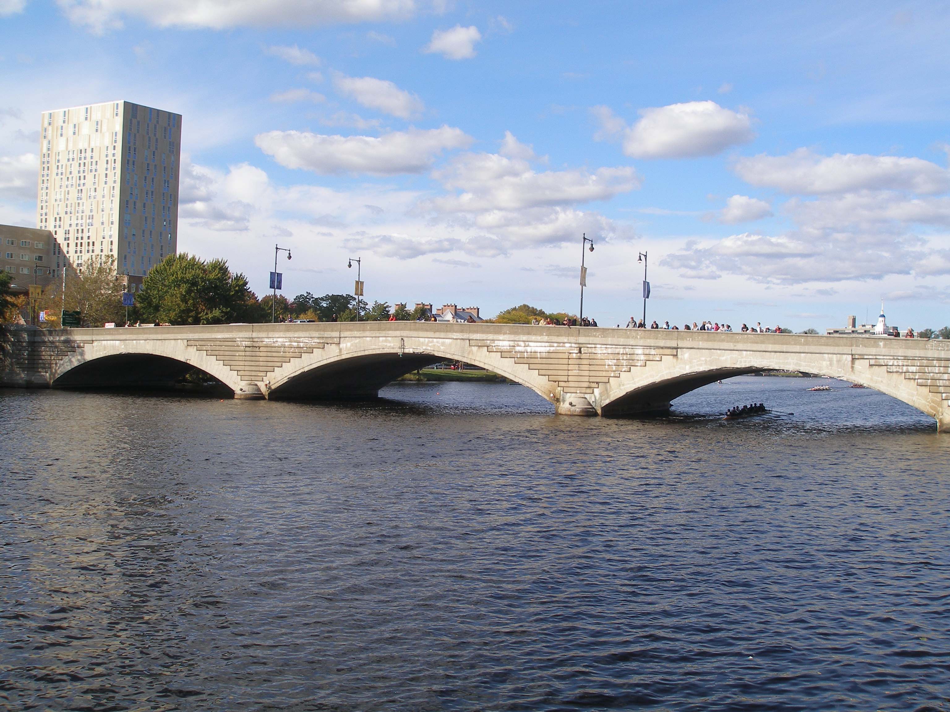 The Western Avenue Bridge over the Charles River, in Cambridge, MA and Allston, Boston, MA, in October 2008.